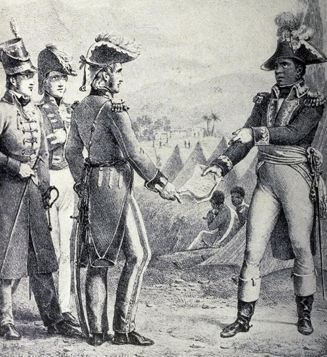 Toussaint Louverture and General Thomas Maitland, Saint-Domingue, 1790s.